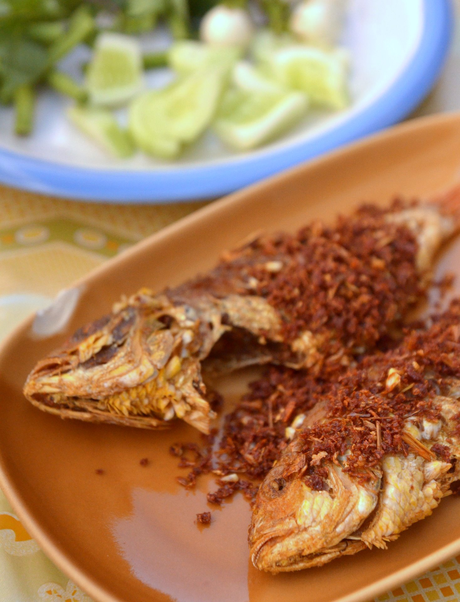 Pla thot khamin (Thai script: ปลาทอดขมิ้น) is deep-fried fish (pla thot) which has been marinated with tumeric (khamin), and often served with a spicy dipping sauce. The fish in this image is pla sai daeng (Thai script: ปลาทรายแดง, Nemipterus hexodon), a type of threadfin bream. Pla thot khamin is a dish from southern Thailand. It is topped with krueng thae (crispy fried chopped garlic and turmeric).